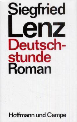 Bookcover of Siegfried Lenz "Deutschstunde" 1968